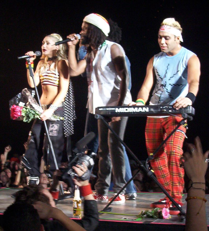 Gwen Stefani, Stephen Bradley, and Tony Kanal of No Doubt performing in Sacramento, California, United States on the Rock Steady Tour.GwenStevenTony